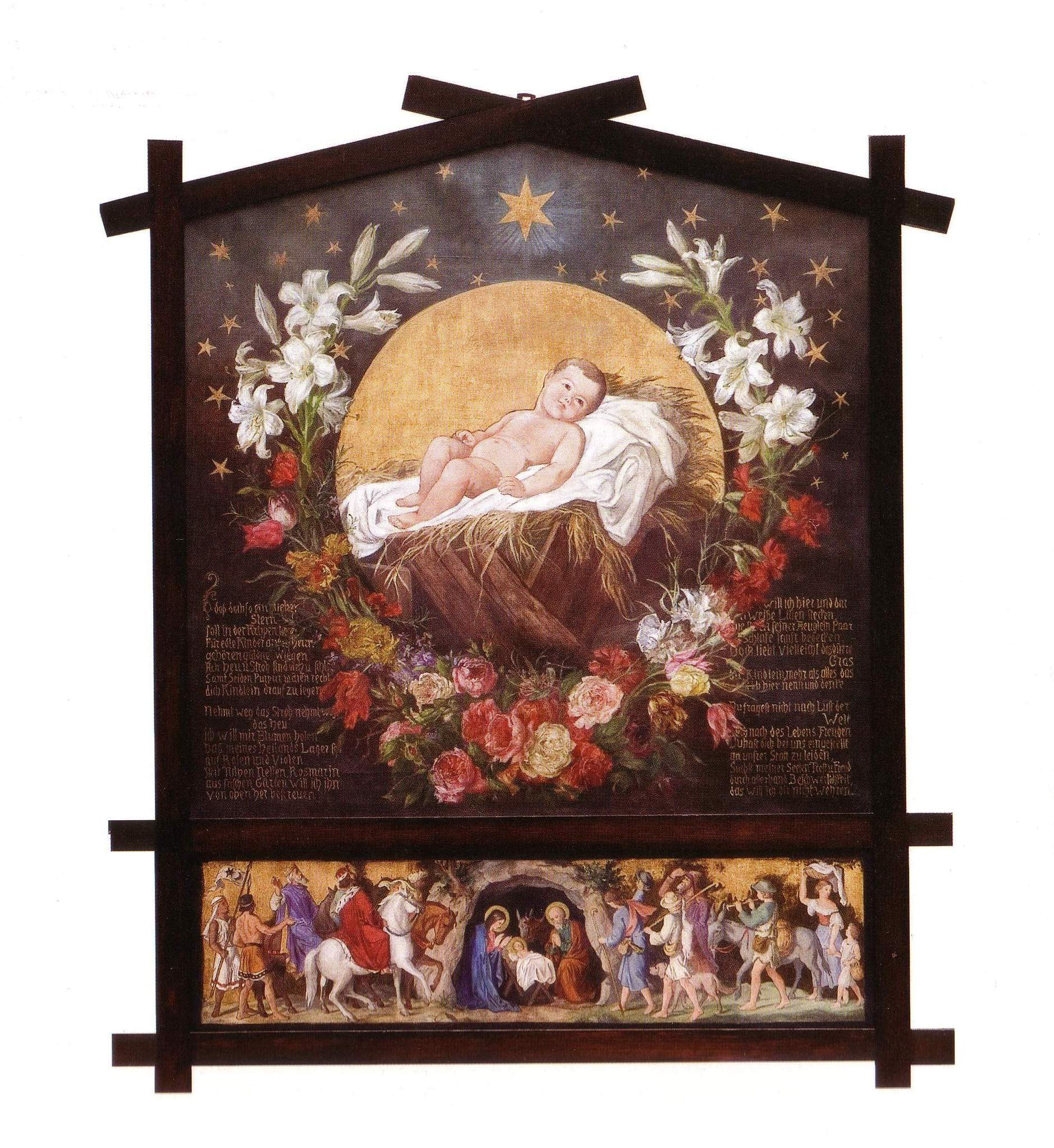 oil painting by Johanne Philippine Nathusius